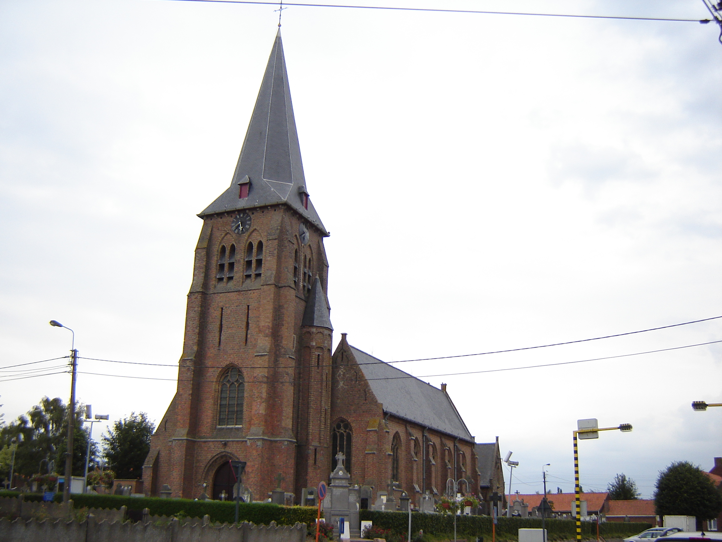 Church of Saint Malo in Wulvergem, Heuvelland, West Flanders, Belgium.